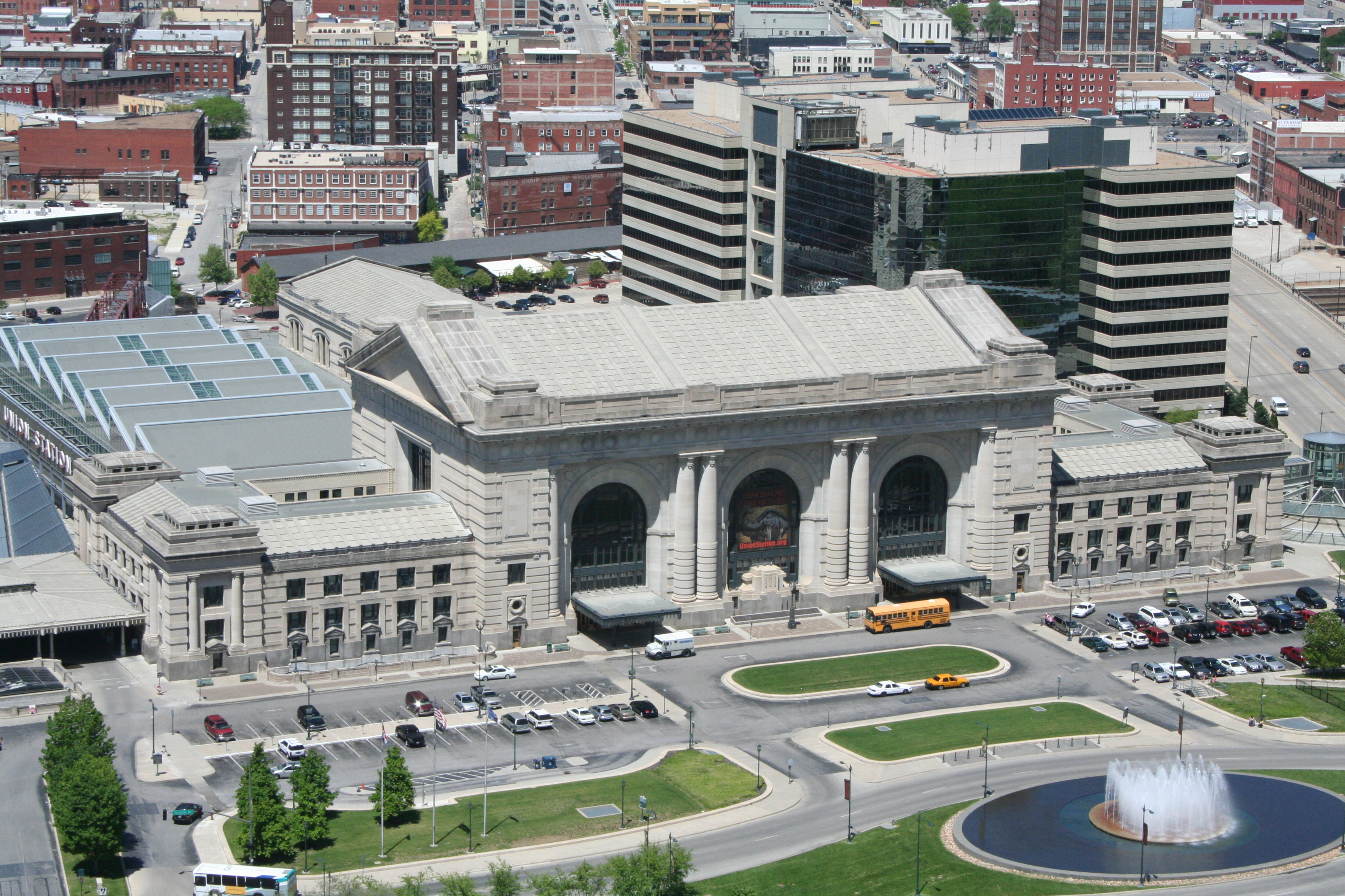 Views from Liberty Memorial, Union Station, Kansas City